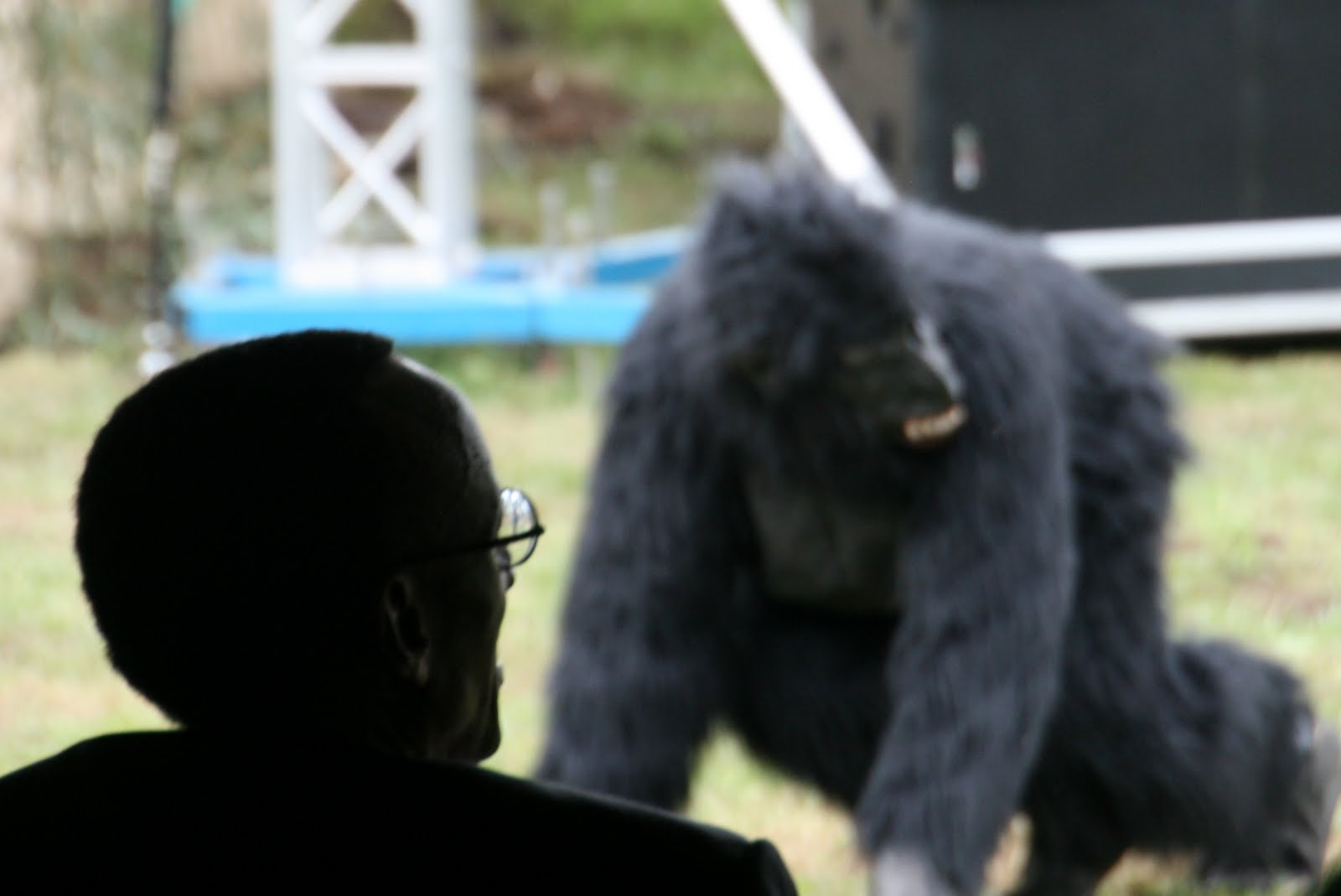 President Kagame of Rwanda watching the sixth annual Kwita Izina ceremony.